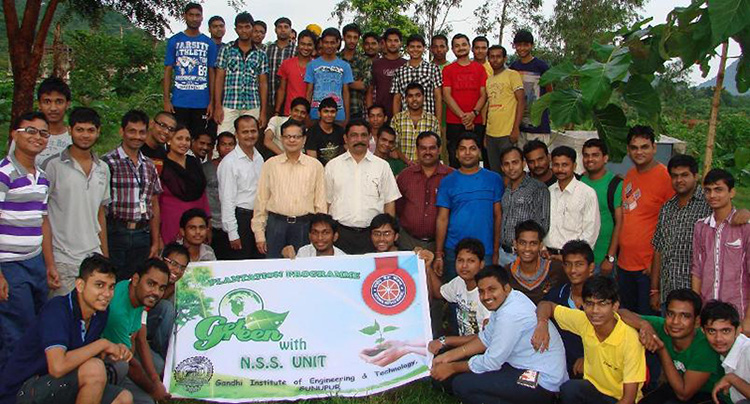 Image uploaded by Mr. Santosh Sahu. NSS Camp by giet, gunupur